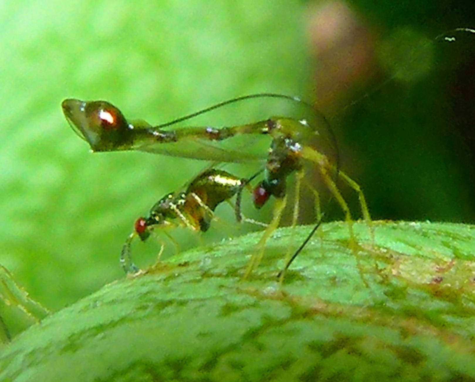 Adult female A. guineensis fig wasps on a fig of Ficus sur in Manie van der Schijff Botanical Garden, Pretoria